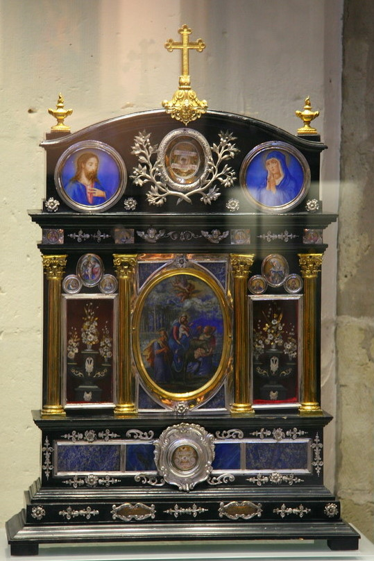 Reliquary with pictures of the Holy Family, from the treasury of St. Michael and Gudula cathedral in Brussels. Work of an unknown Italian artist, around 1625.